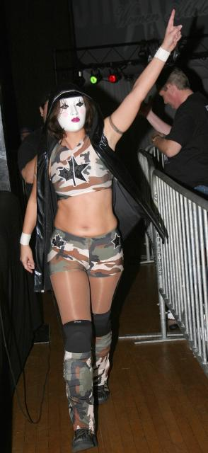 Allison Danger making her way to the ring for her match against Cindy Rogers in Shimmer Women Athletes